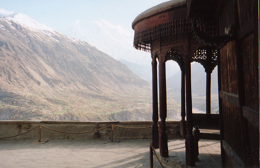 A view of the Hunza Valley from Baltit Fort in Pakistan